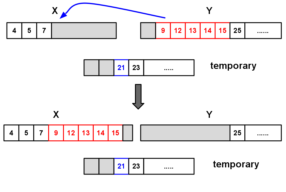 depiction of galloping mode in timsort